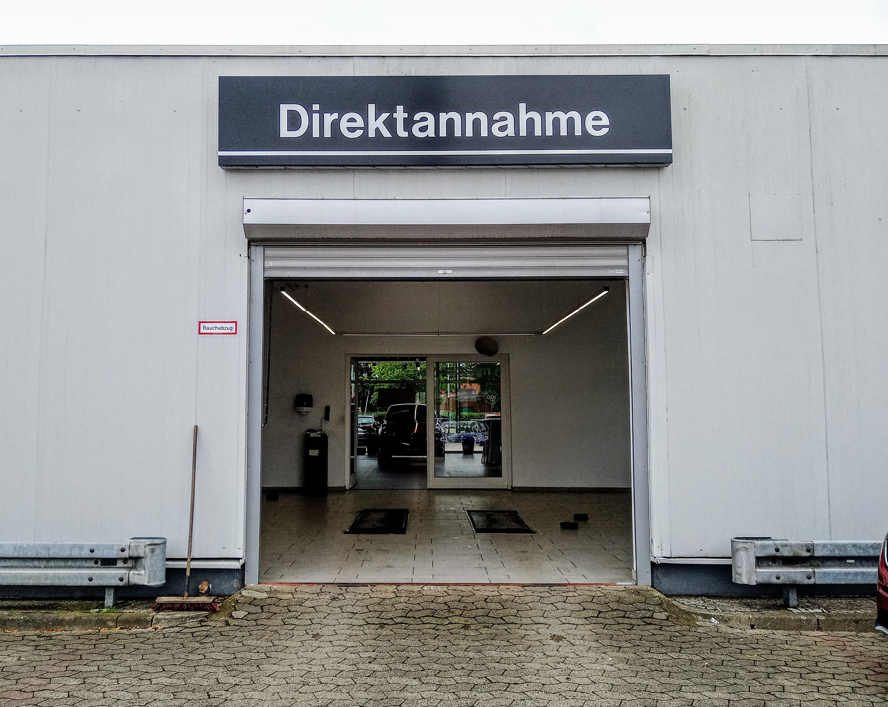 The direct adoption from a Mazda dealership in Germany.